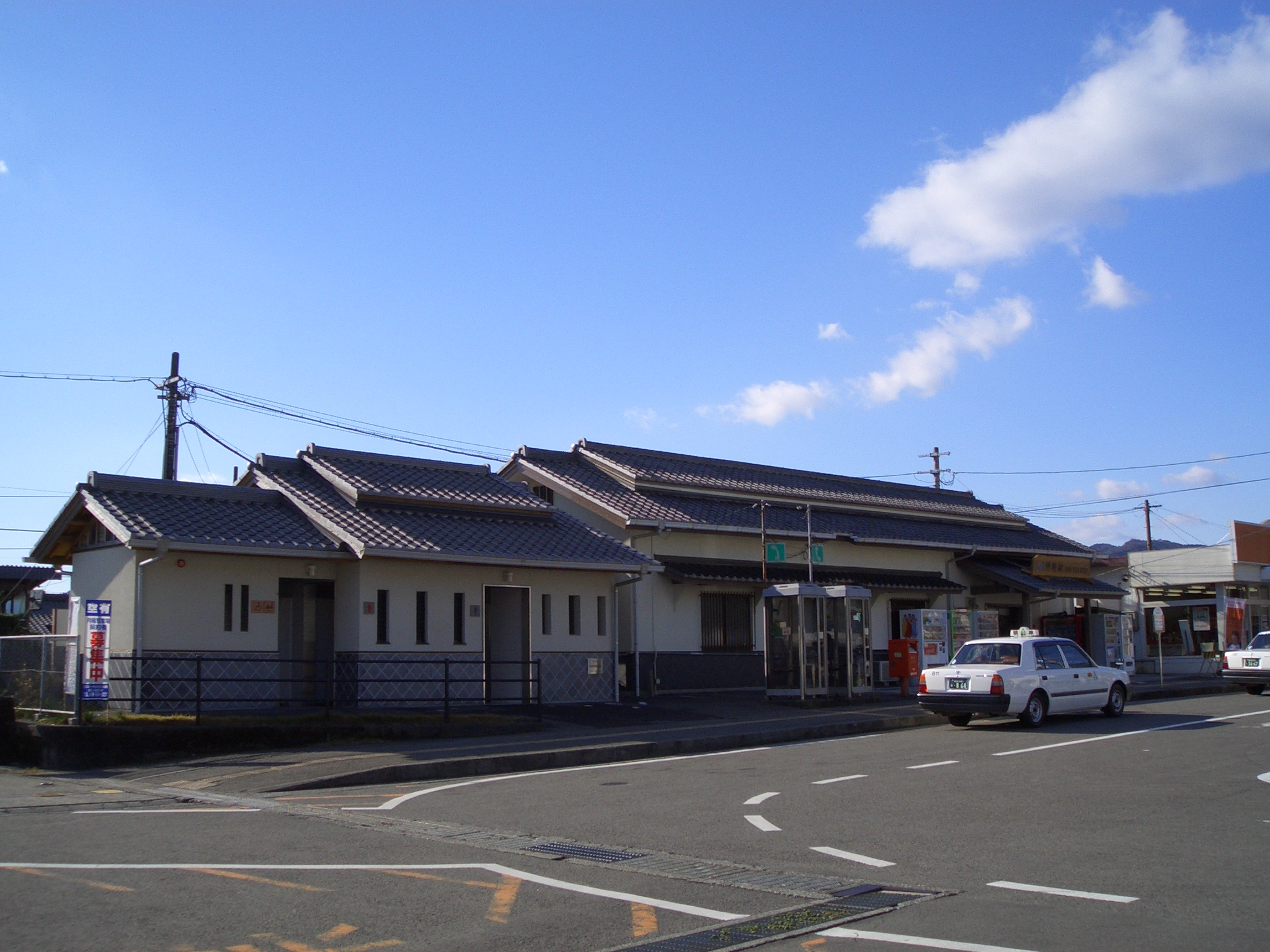 JR Shikoku Ino Station in 2006